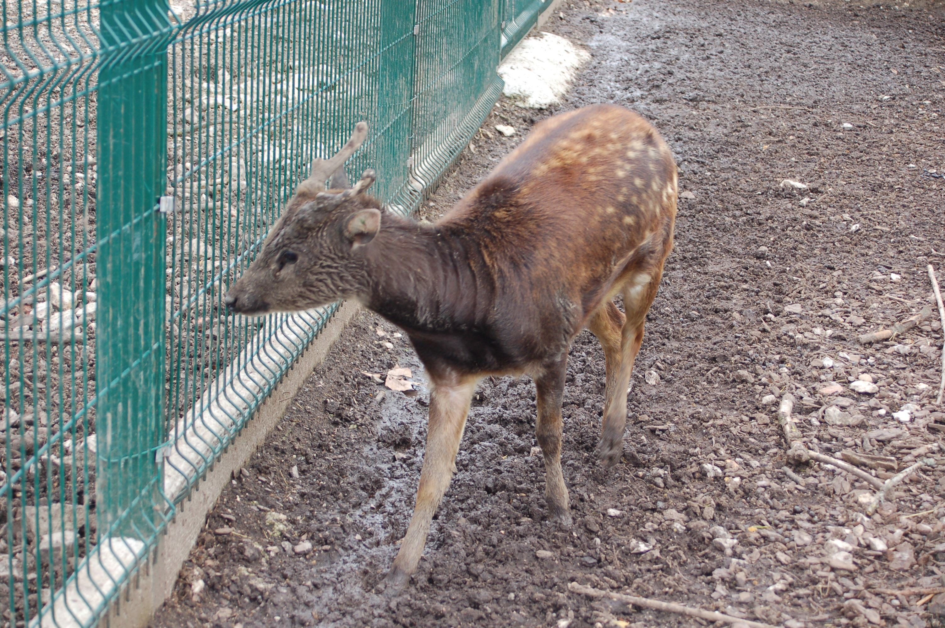 A Prince Alfred Cerf Zoo Citadel of Besançon.